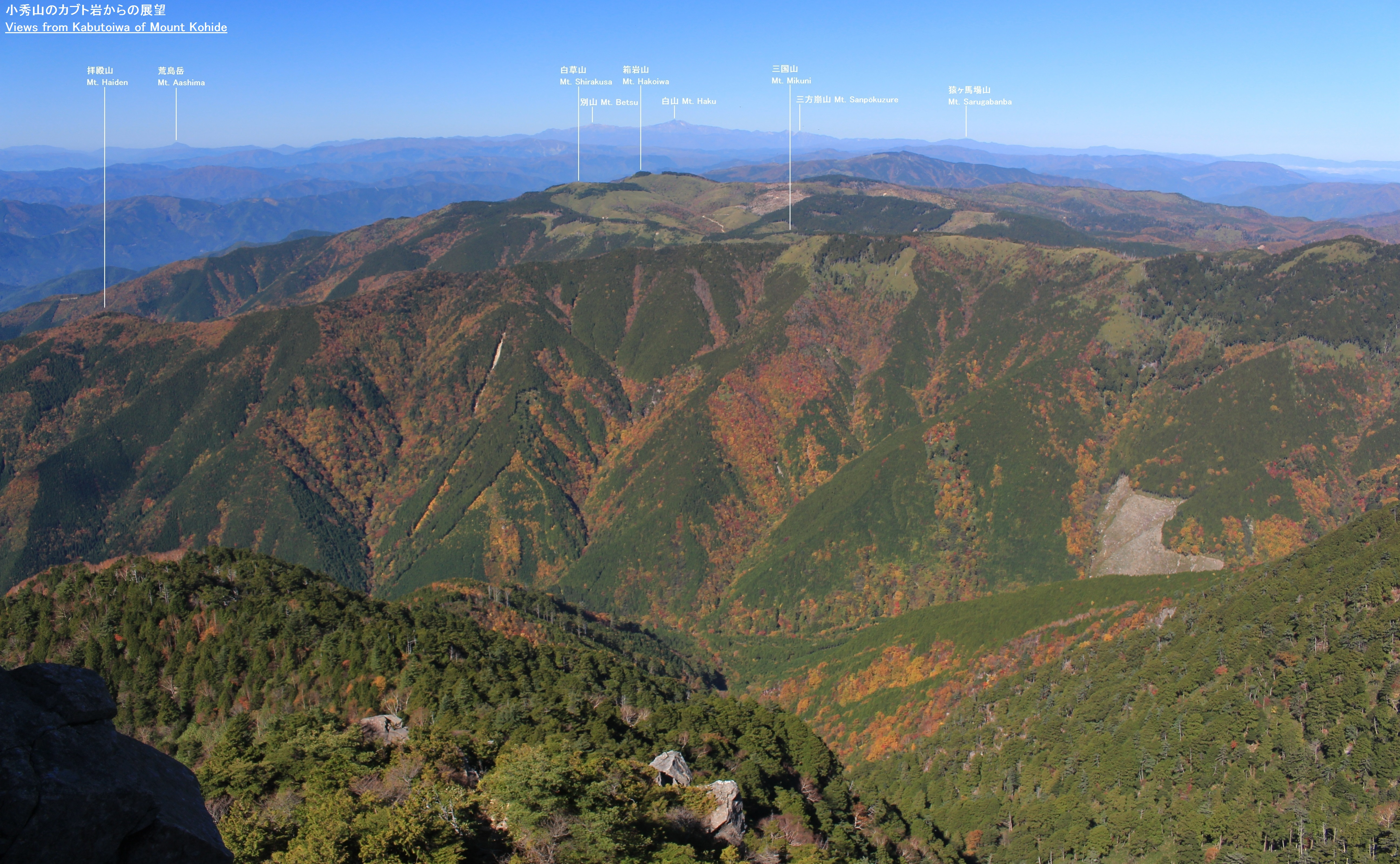 Mount Shirakusa seen from Kabutoiwa on Mount Kohide, in Ōtaki, Nagano prefecture and Gero, Gifu prefecture, Japan.